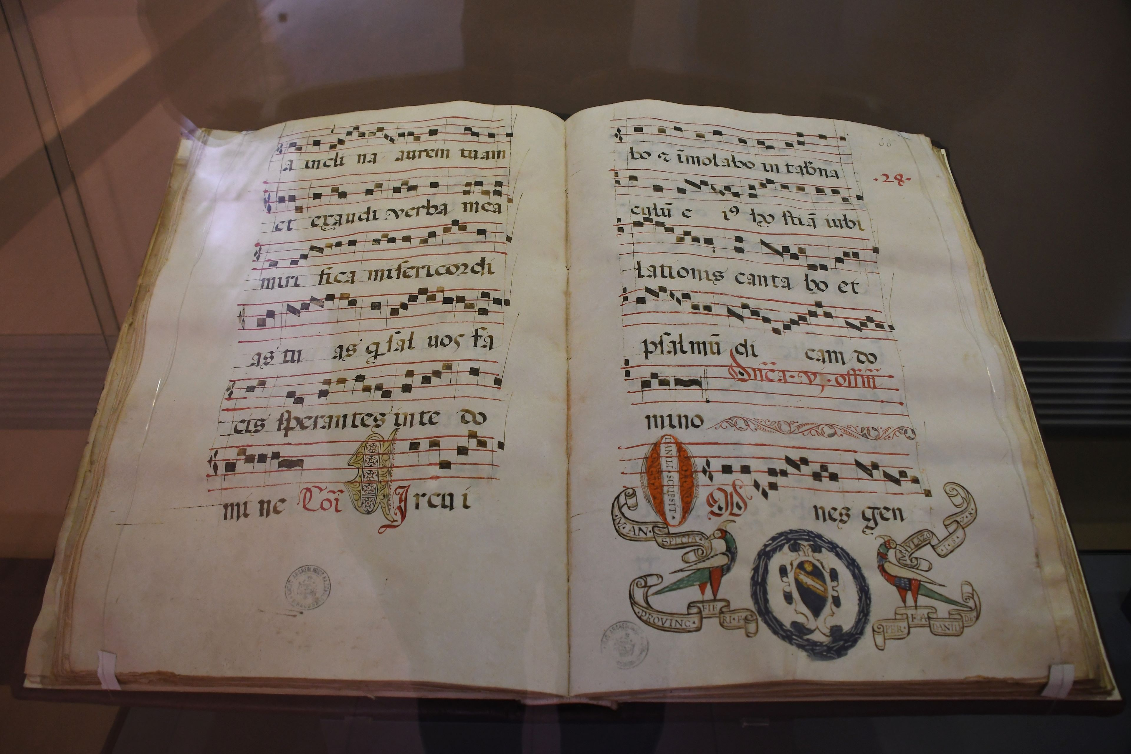 Siracusa, Galleria Regionale di Palazzo Bellomo, Antifonario (Danili Antonini, 1578/1579)